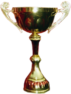 Albena cup 2009 trophy